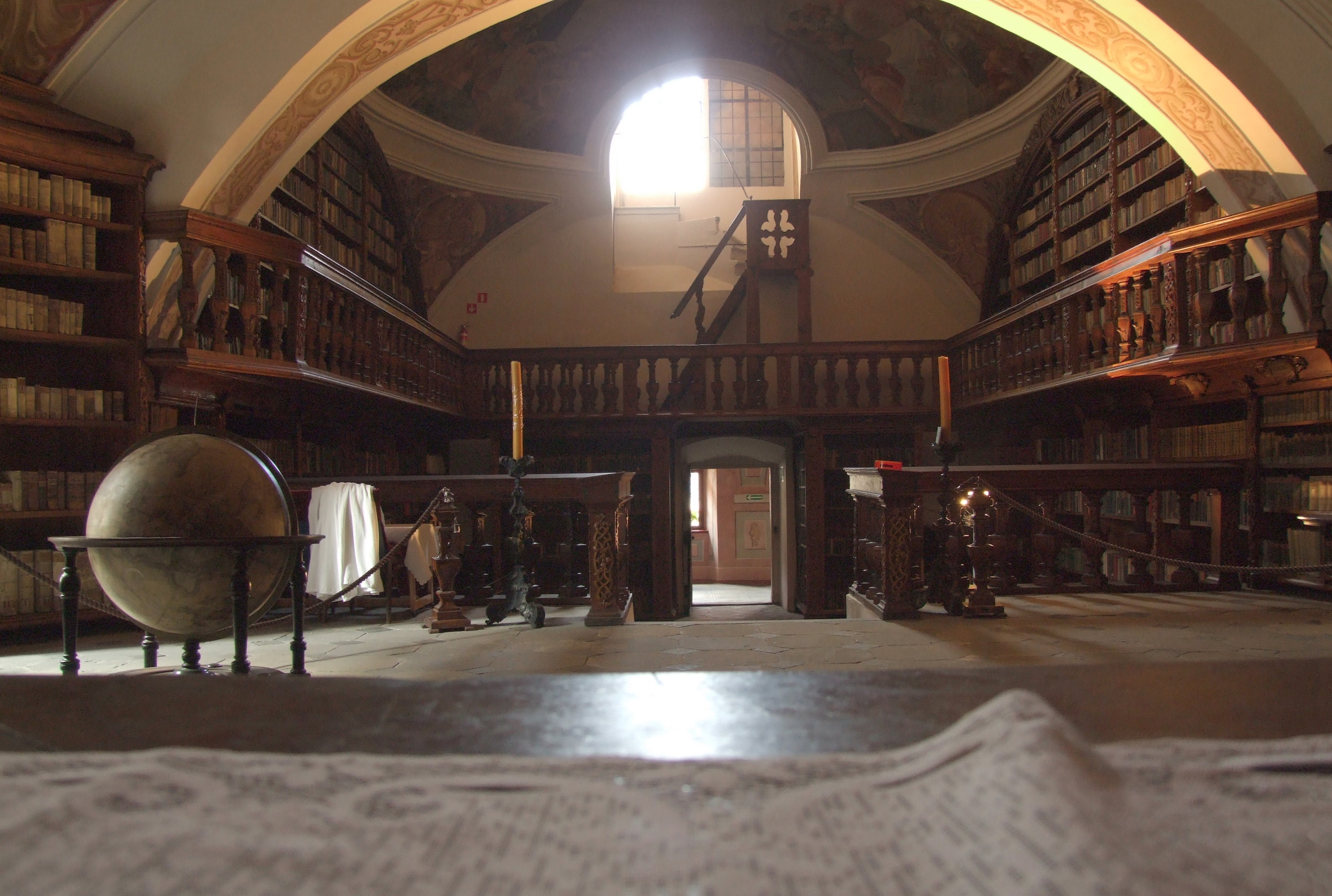 post Augustinian library in Żagań (Sagan)